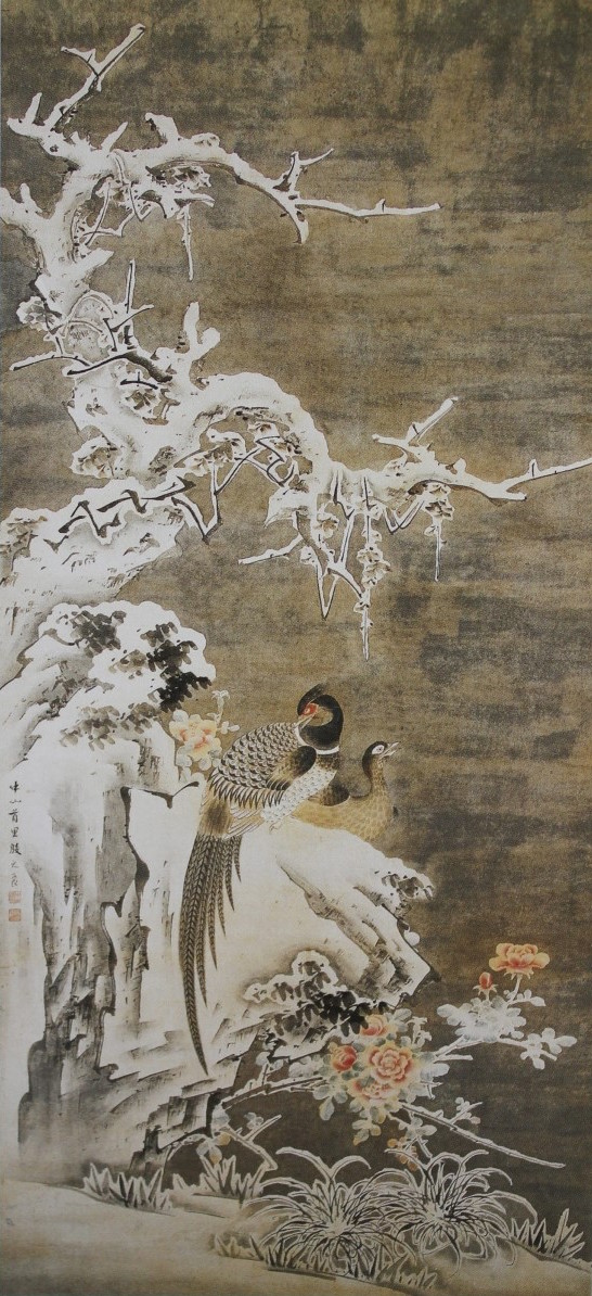 Pheasant in the snow by Ingen Ryō, Okinawa Prefectural Museum & Art Museum, Naha, Okinawa, Japan